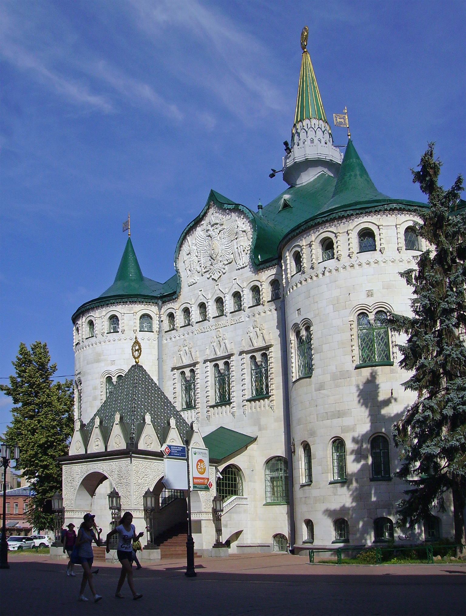 State Bank Building in Nizhny Novgorod. It was built in 1913.